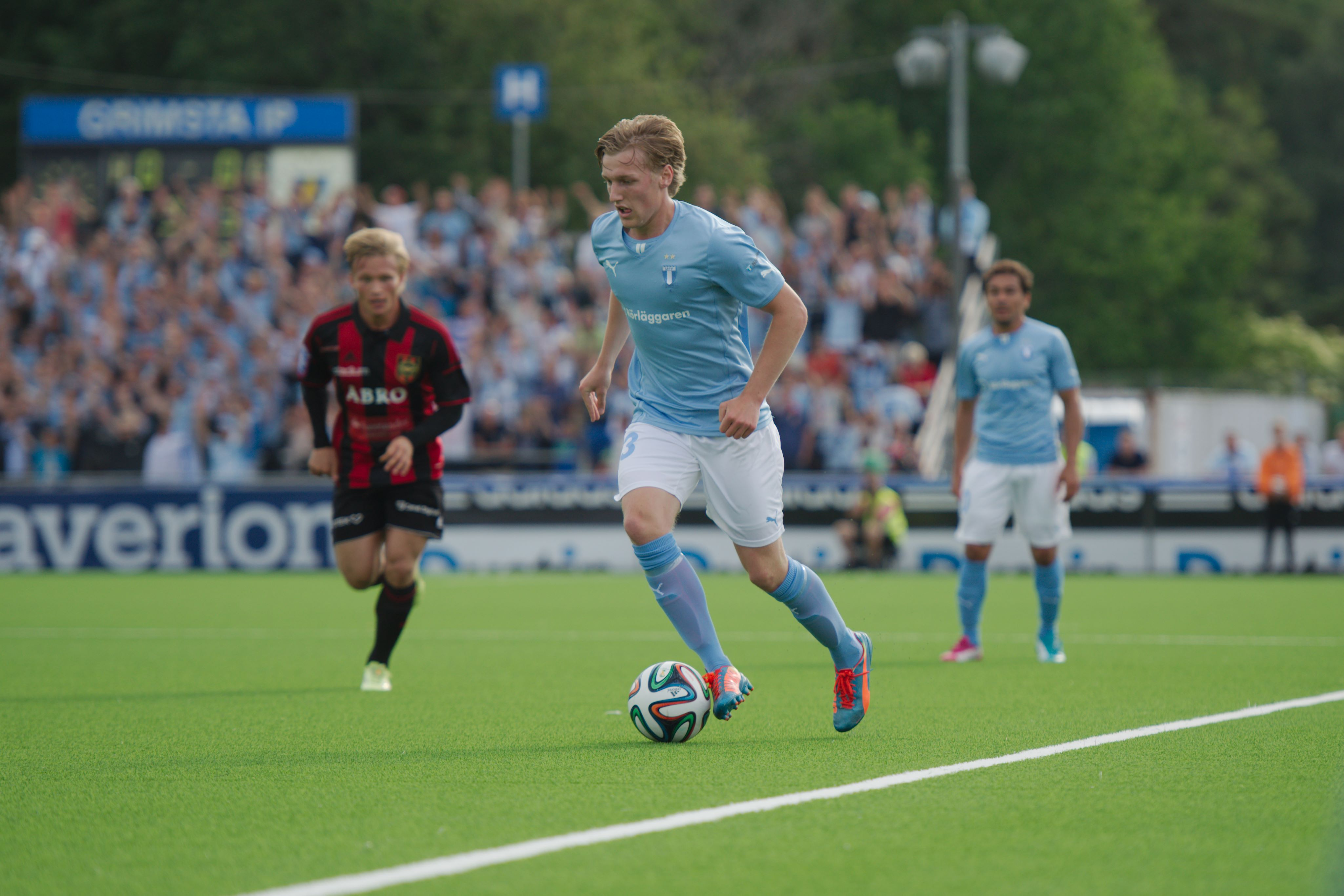 Allsvenskan IF Brommapojkarna-Malmö FF at Grimsta IP converted PNM file